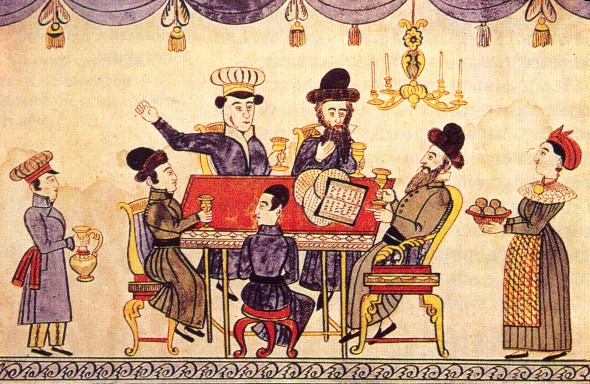 Jews Celebrating Passover. Lubok, XIXth century.